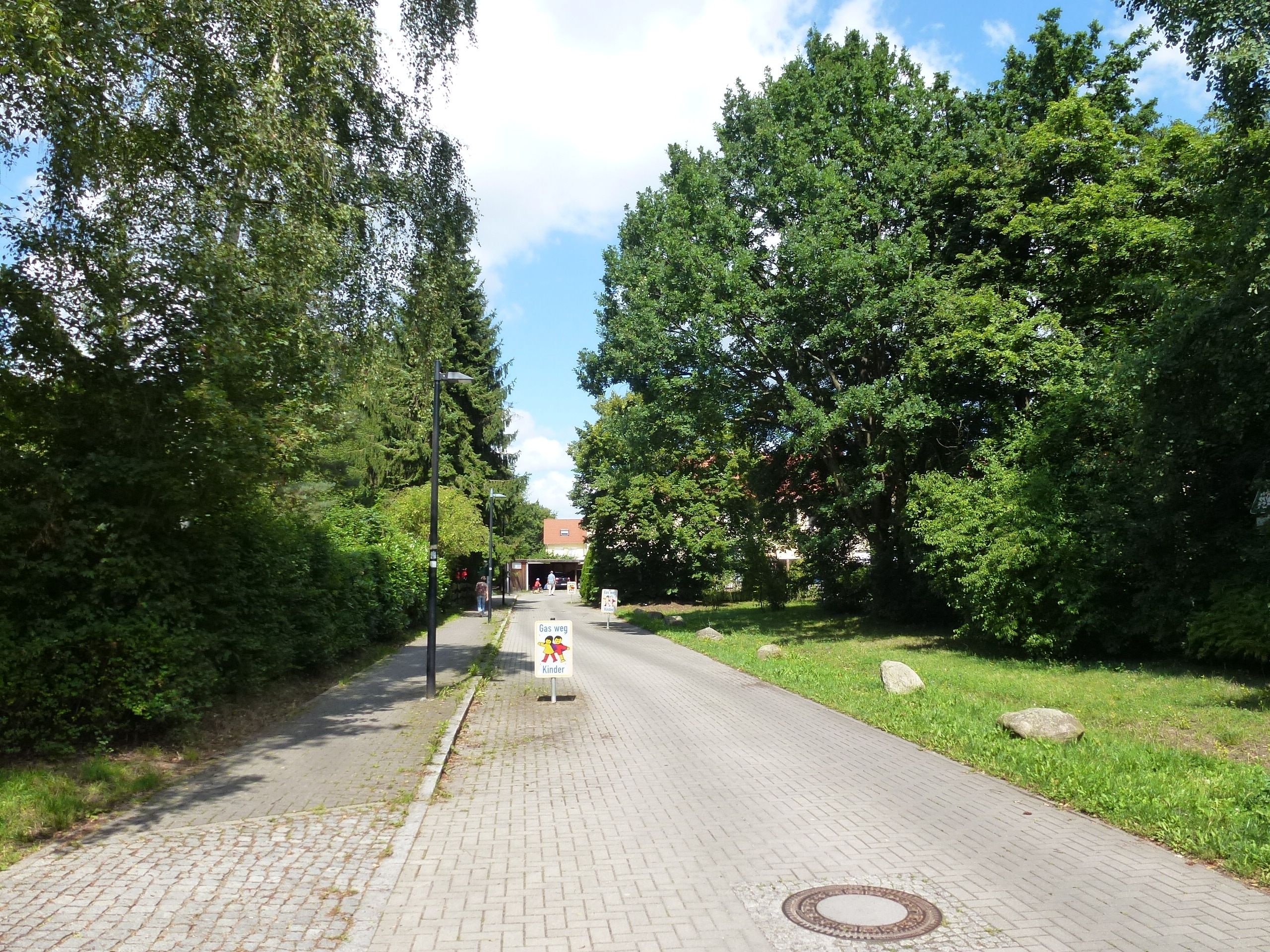 Berlin-Buckow In den Gärten